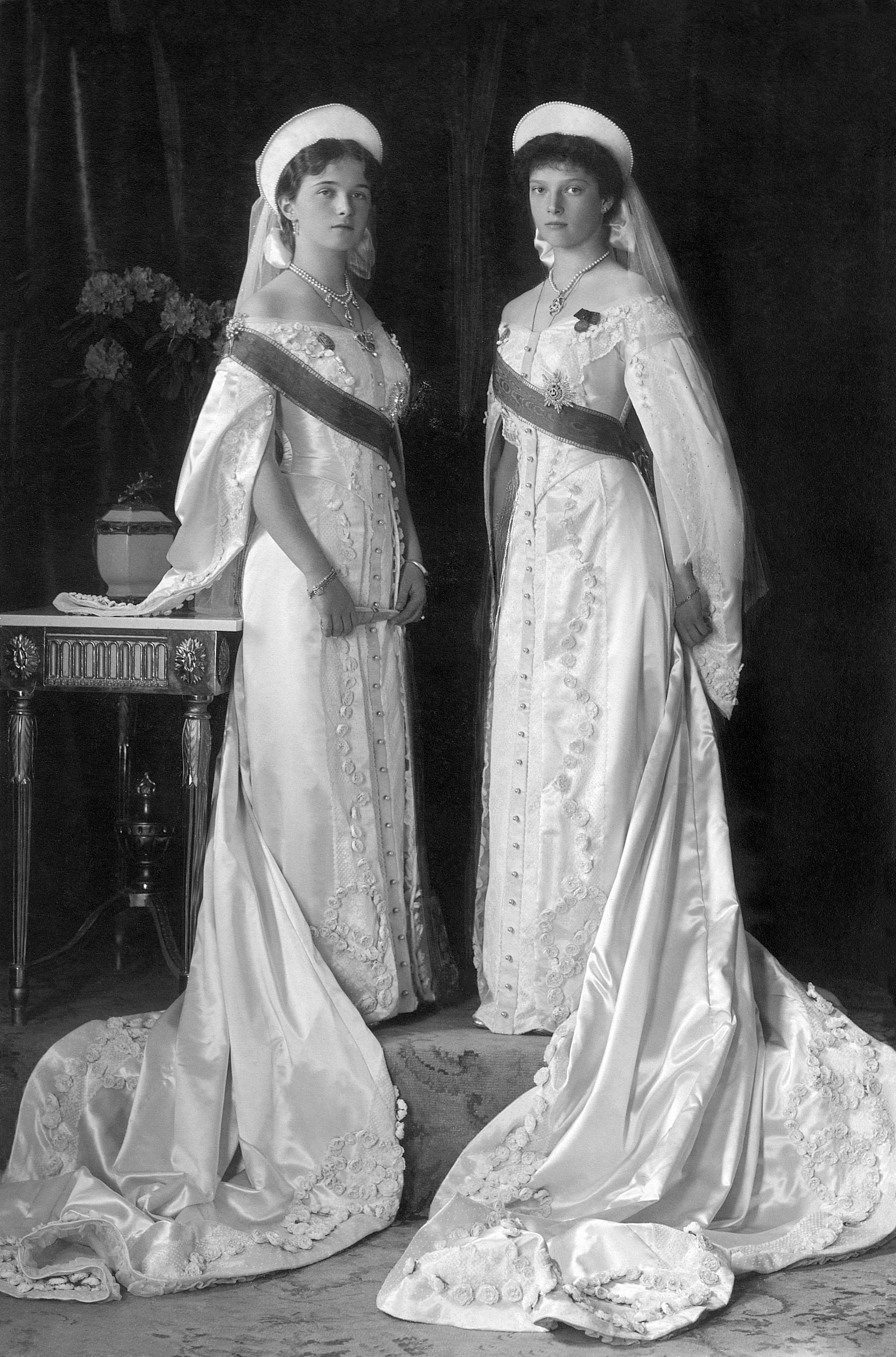 Olga and Tatjana Nikolaevna in court gown